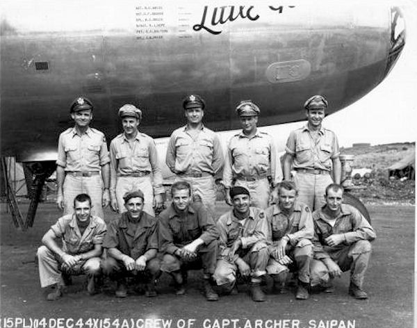 497th Bomb Group B-29 42-24596 "Little Gem"